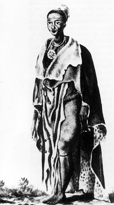 A youthful Ngqika, the chief of the Rharhabe Xhosa, in his button-decorated leopard coat.